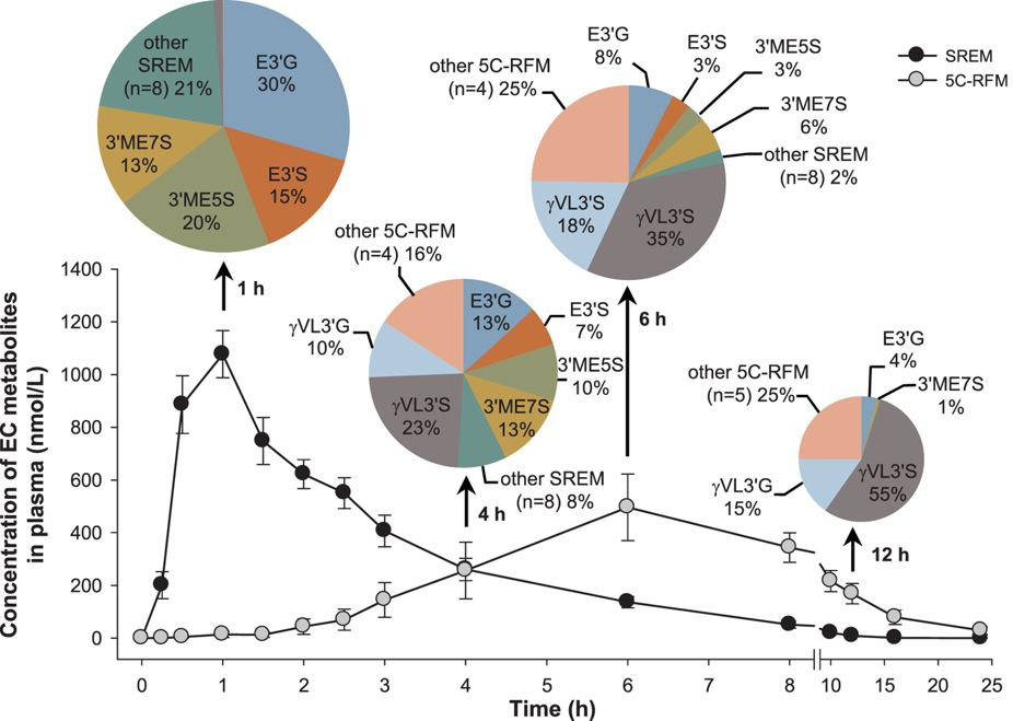 Concentration in plasma of (−)-epicatechin metabolites as a function of time